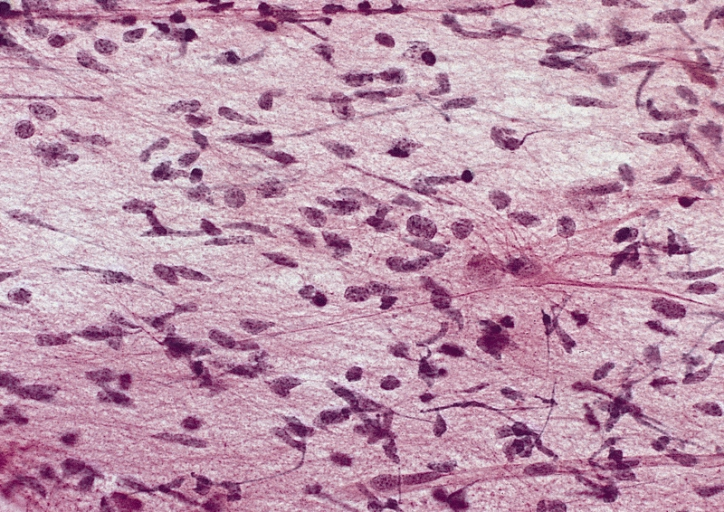 AFIP-00405557 Gliomatosis Cerebri (Micro) CNS: GLIOMATOSIS CEREBRI Uniform, somewhat elongated nuclei of intermediate density are typical. Note the incorporated reactive astrocyte at the right with its prominent radiating processes.